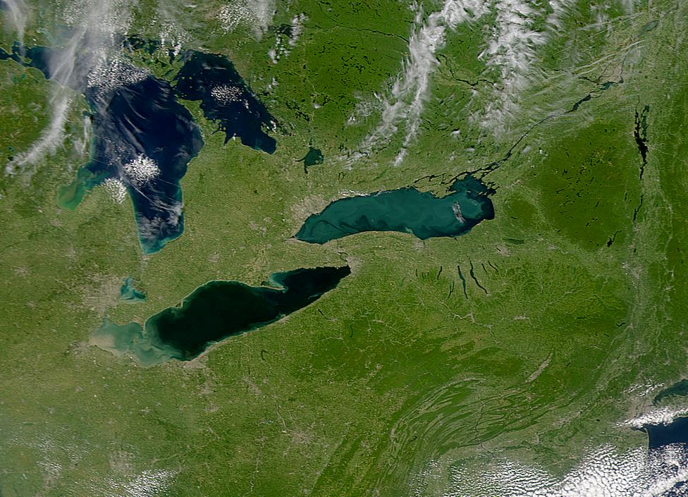 Provided by the SeaWiFS Project, NASA/Goddard Space Flight Center, and ORBIMAGE .